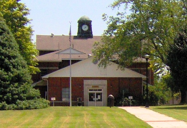 Scott County Courthouse in Huntsville, Tennessee, in the southeastern United States.